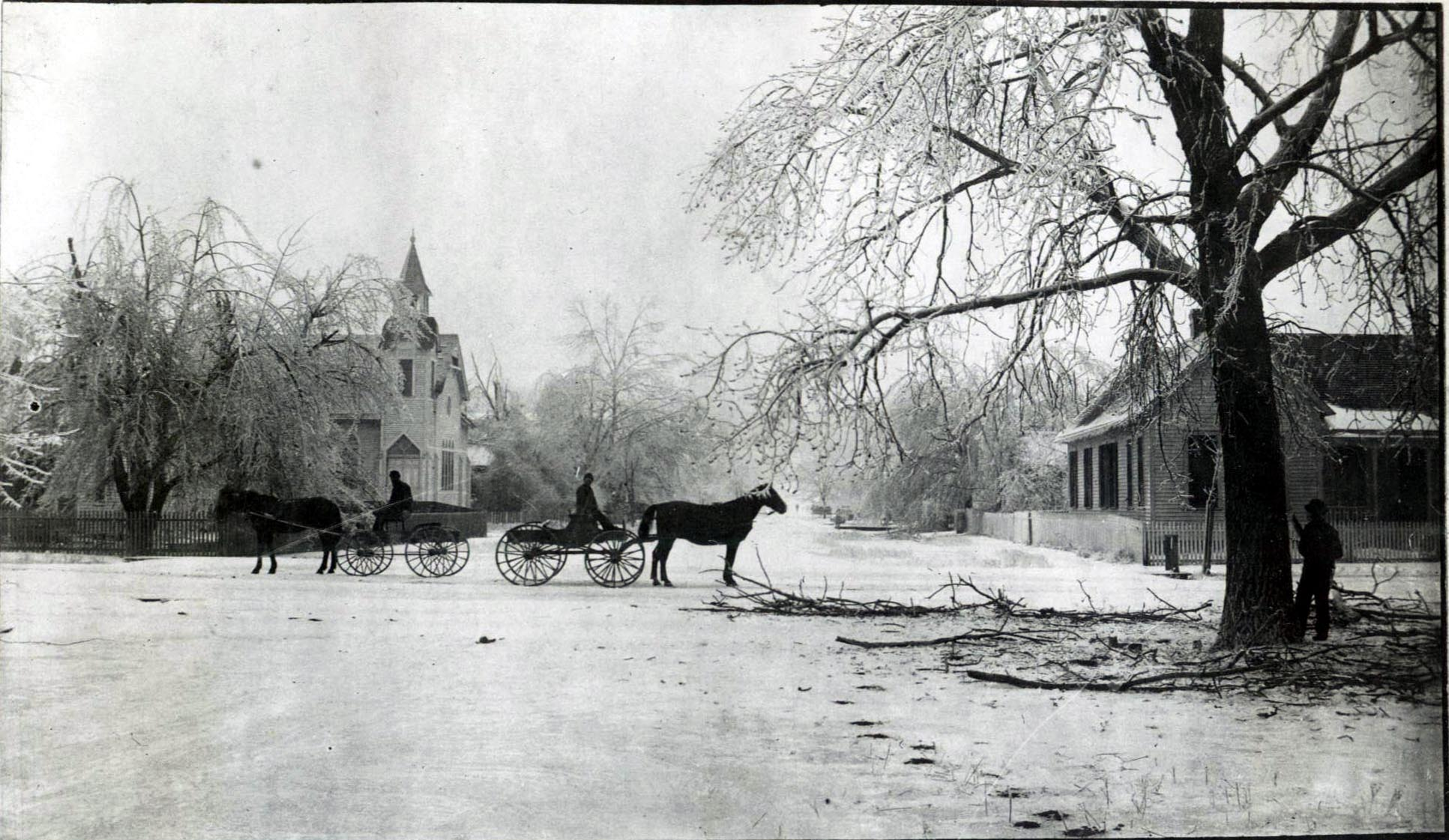 Horse & Buggies